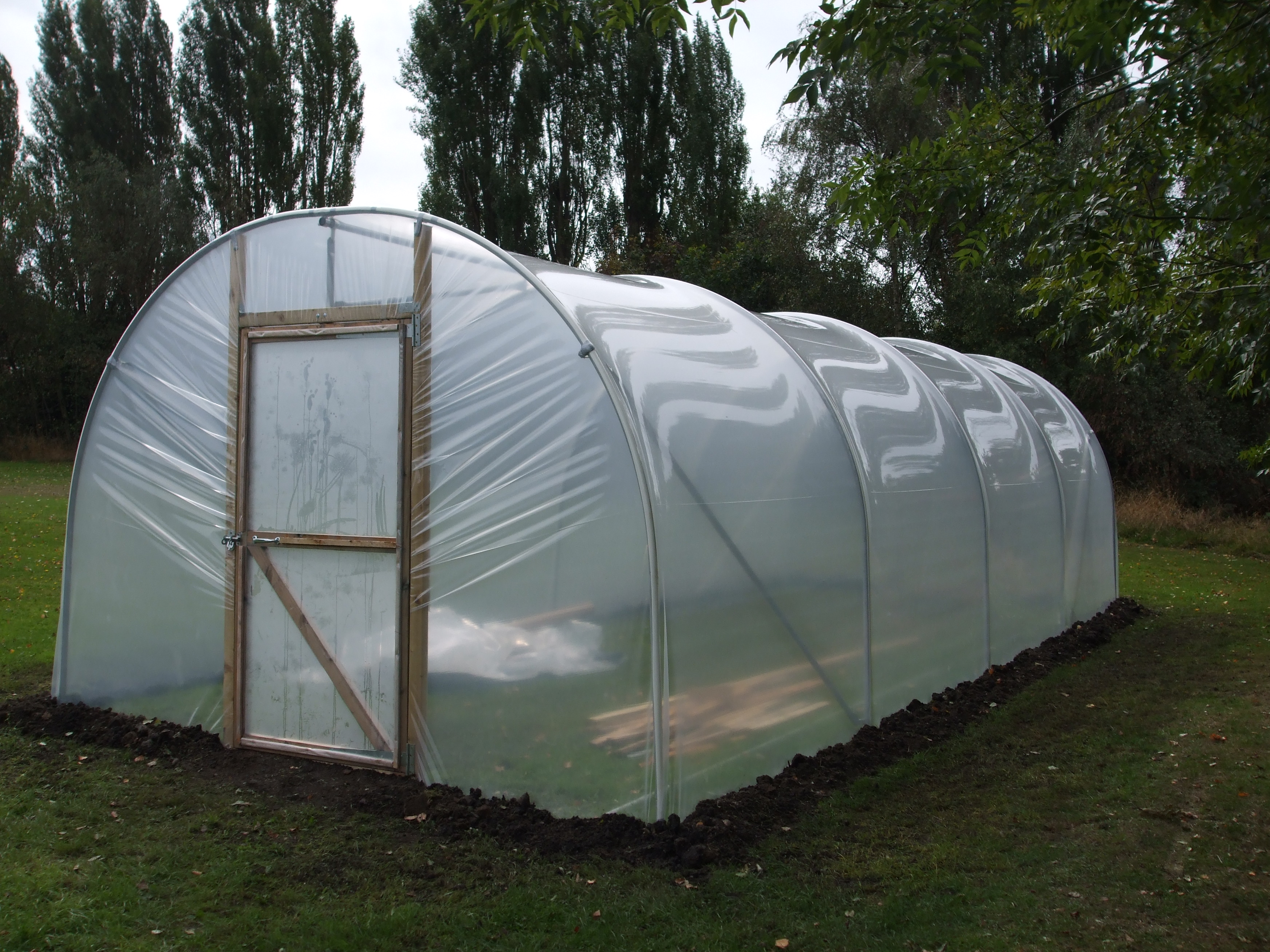 Solar Single Span Hobby Polytunnel